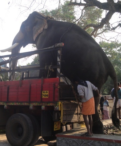 Ampalapuzha Vijayakrishnan